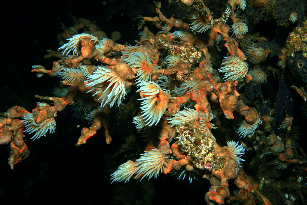 From a distance, these coral heads resemble cotton plants growing on the sea mountain at the "Cotton Hill" dive site in Sta. Catalina, Panama. But a closer look reveals delicate white coral polyps feeding in the plankton-rich waters of the Pacific Ocean.